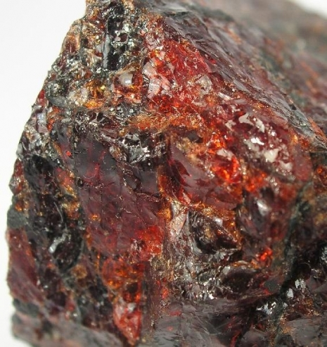 Calderite Locality: Otjosondu, Otjozondjupa Region, Namibia Size: 6 x 5.5 x 4.2 cm A beautiful, very rich specimen of the rare garnet Calderite. The grains, which run throughout the specimen, are very gemmy and a beautiful blood-red. The luster, as you would expect, is incredibly glassy. The larger grains average about 1 cm across, and are massive but with gemmy areas. In its own way, quite attractive, and when you factor in the rarity, quite desirable. Charlie got this over 20 years ago (prior to 1990). Ex. Charlie Key Collection.